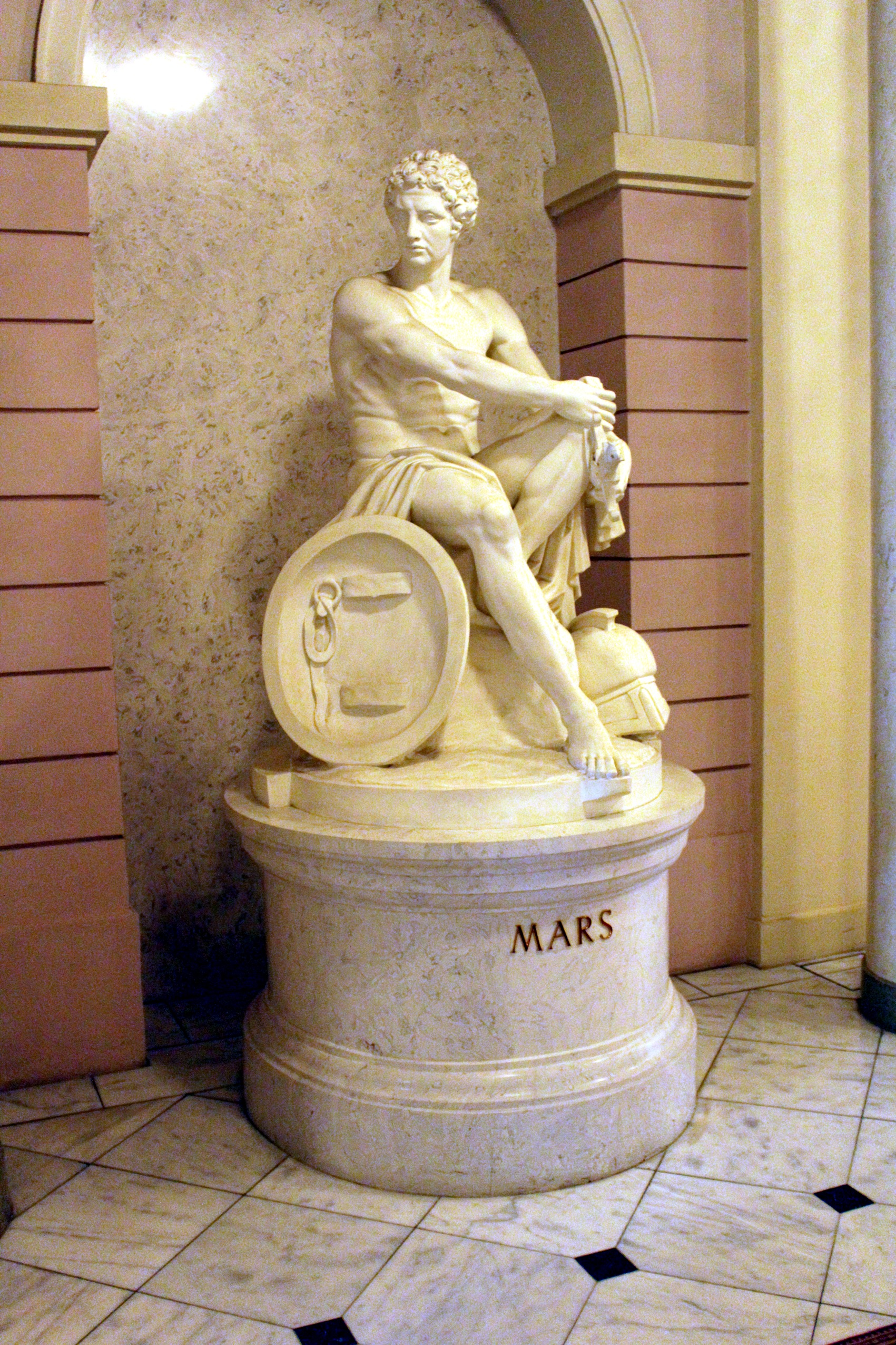 Vienna, city, Albertina, Mars statue